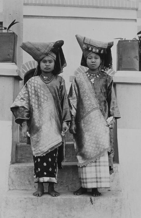 photo. Portrait of two Minangkabau women in adat clothing